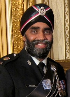 Harjit Sajjan in 2011 The title of the photograph is: Appreciation from the Vets. This file is a cropped version of the photograph.